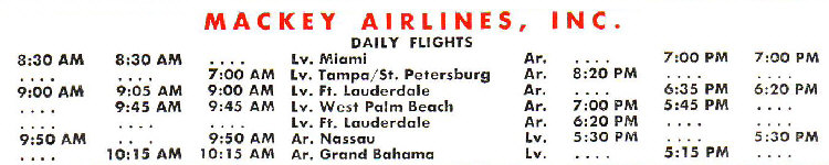 Mackey Airlines timetable of Florida—Bahamas flights, in December 1962